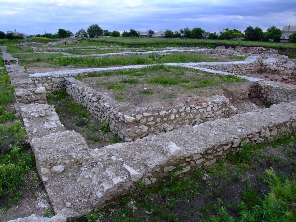 Roman Castra Potaissa built after the conquest of Dacia by Trajan in 106 AD, located in modern Turda, Romania